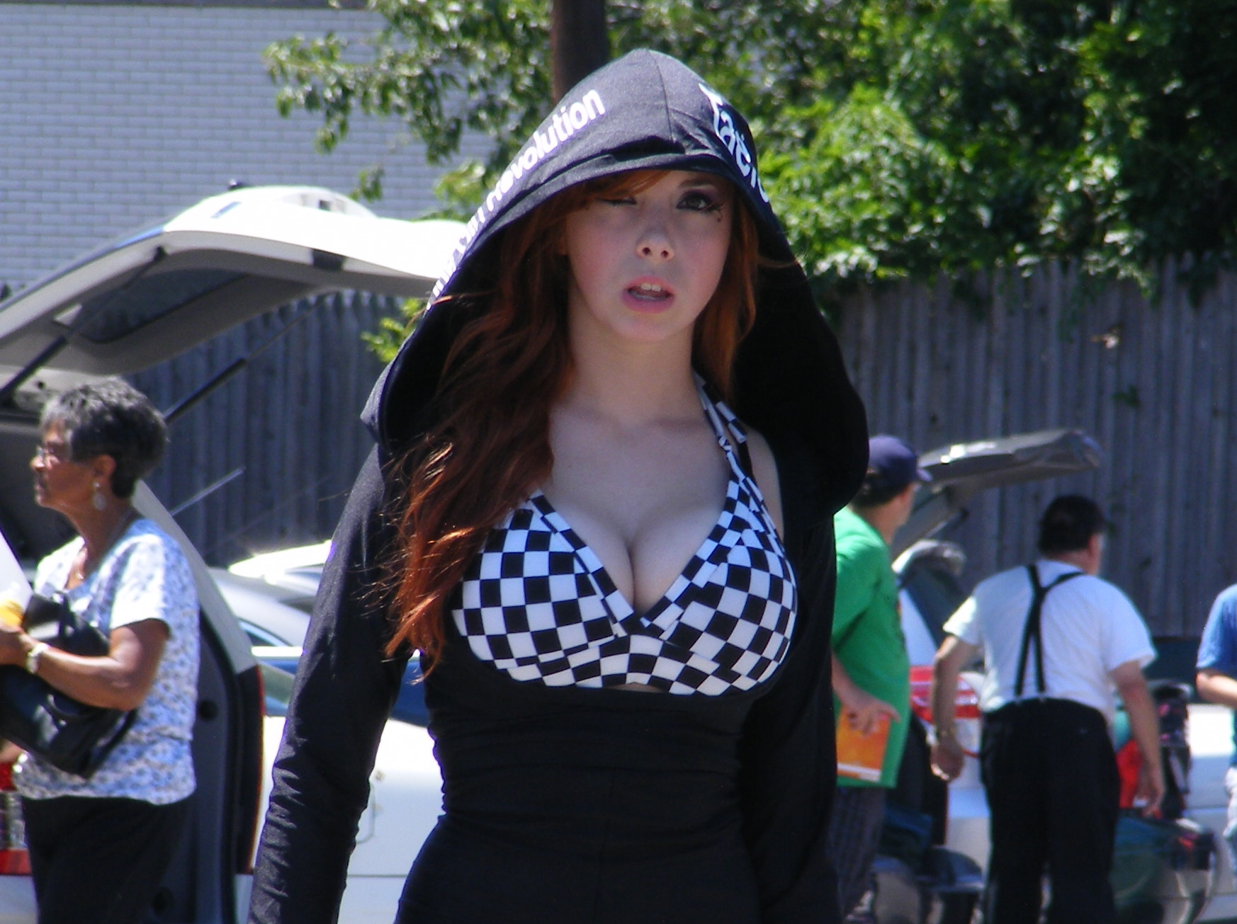 Taeler Hendrix at a HWF show in July 2011.